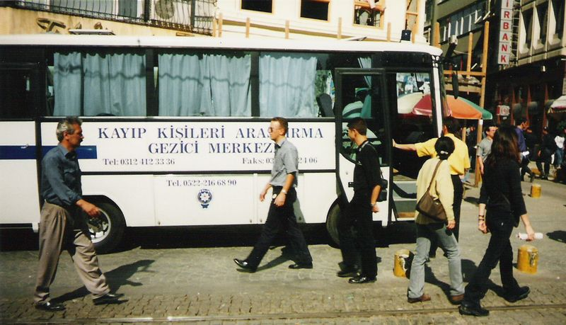 The bus of the "Mobile Centre to Research in Missing People" accompanied the so called "Saturday Mothers" holding vigil in front of Galatasary Lyceum in Istanbul (Turkey)